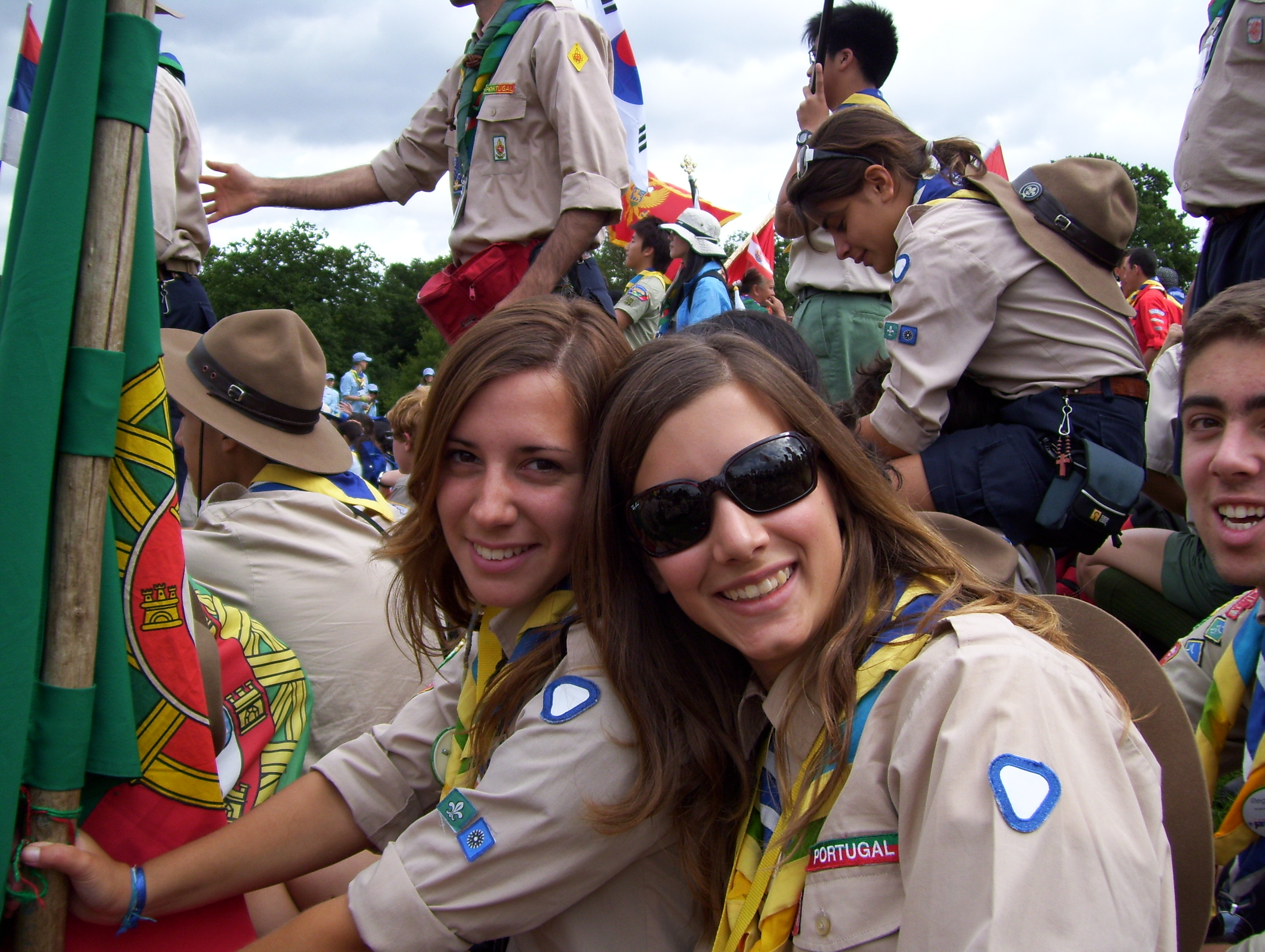 Portuguese Girl Scouts at the 2007 World Jamboree